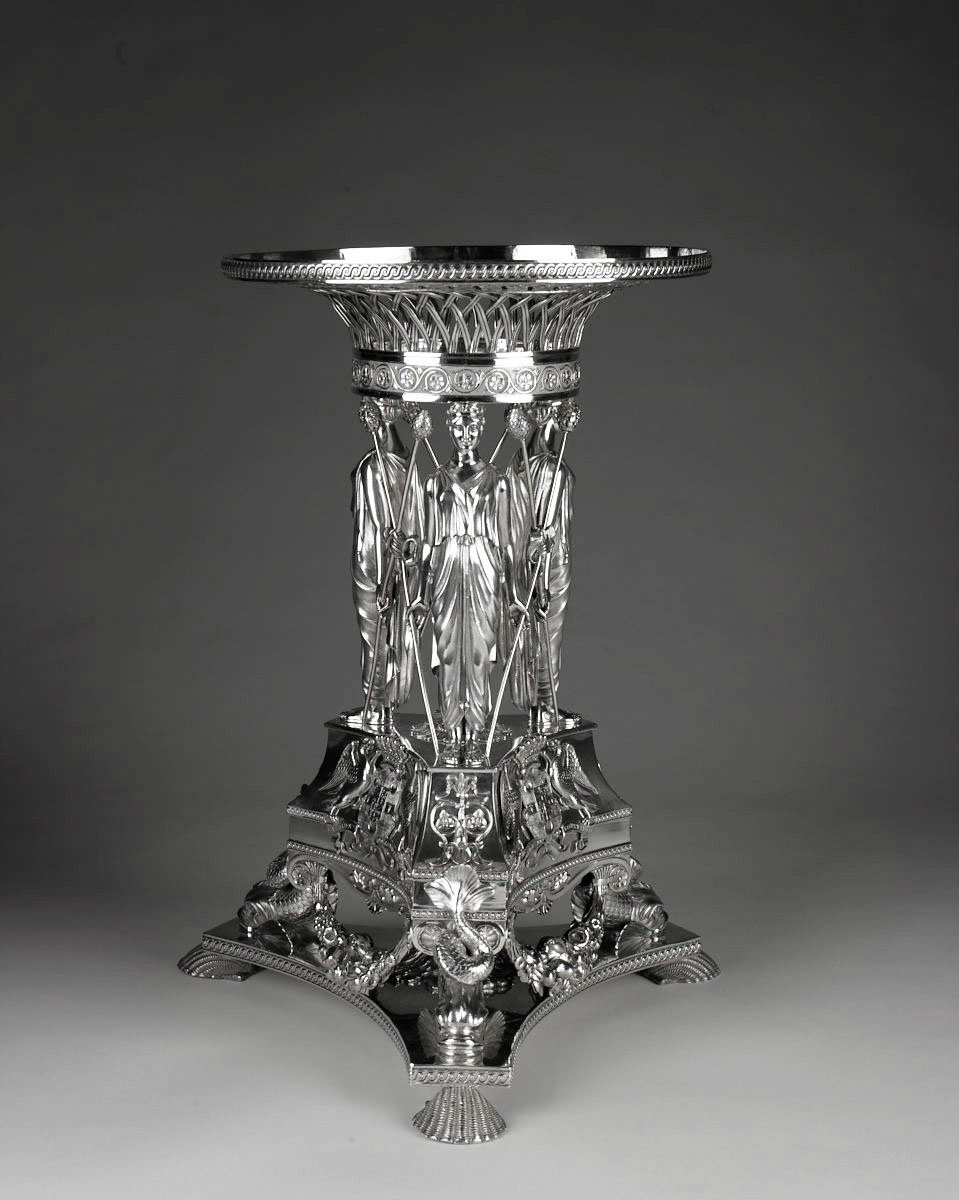 A table centerpiece created by English silversmith Paul Storr in the nineteenth century